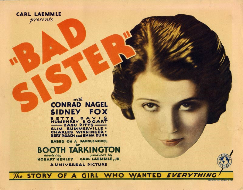 Poster for the 1931 film The Bad Sister. There are no copyright markings pertaining to the image as can be seen in the links above. At bottom right is Country of origin USA.